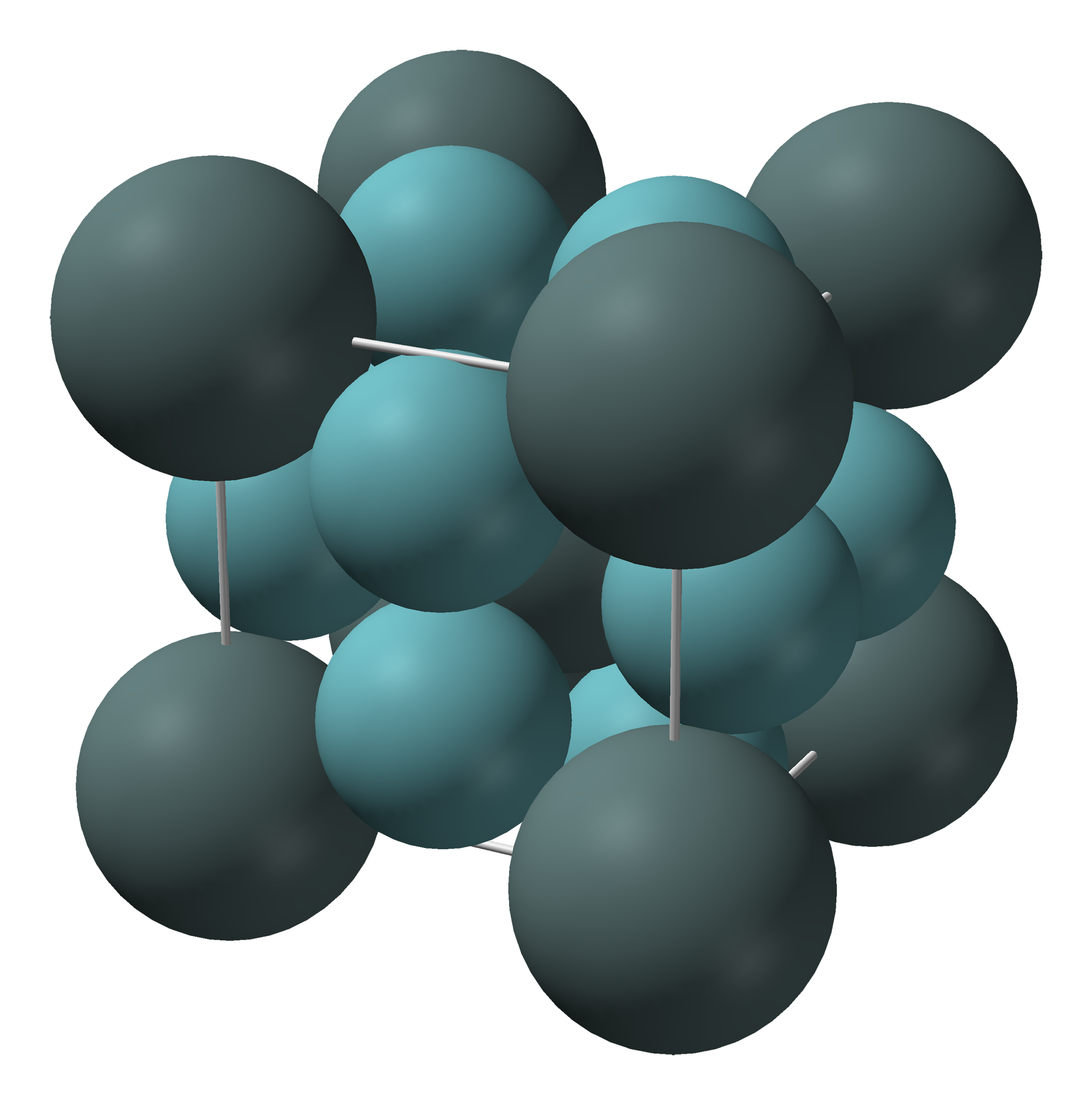 Space-filling model of the unit cell of the crystal structure of niobium-tin, Nb3Sn. Colour code: Niobium, Nb: pale blue Tin, Sn: grey Structure by X-ray crystallography from J. Less-Common Metals (1991). 172-174, 358-365. Model constructed in CrystalMaker 8.3. Image generated in Accelrys DS Visualizer.